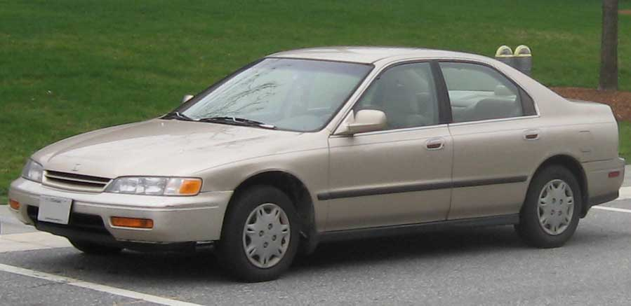 1994-1995 Honda Accord photographed in College Park, Maryland, USA.